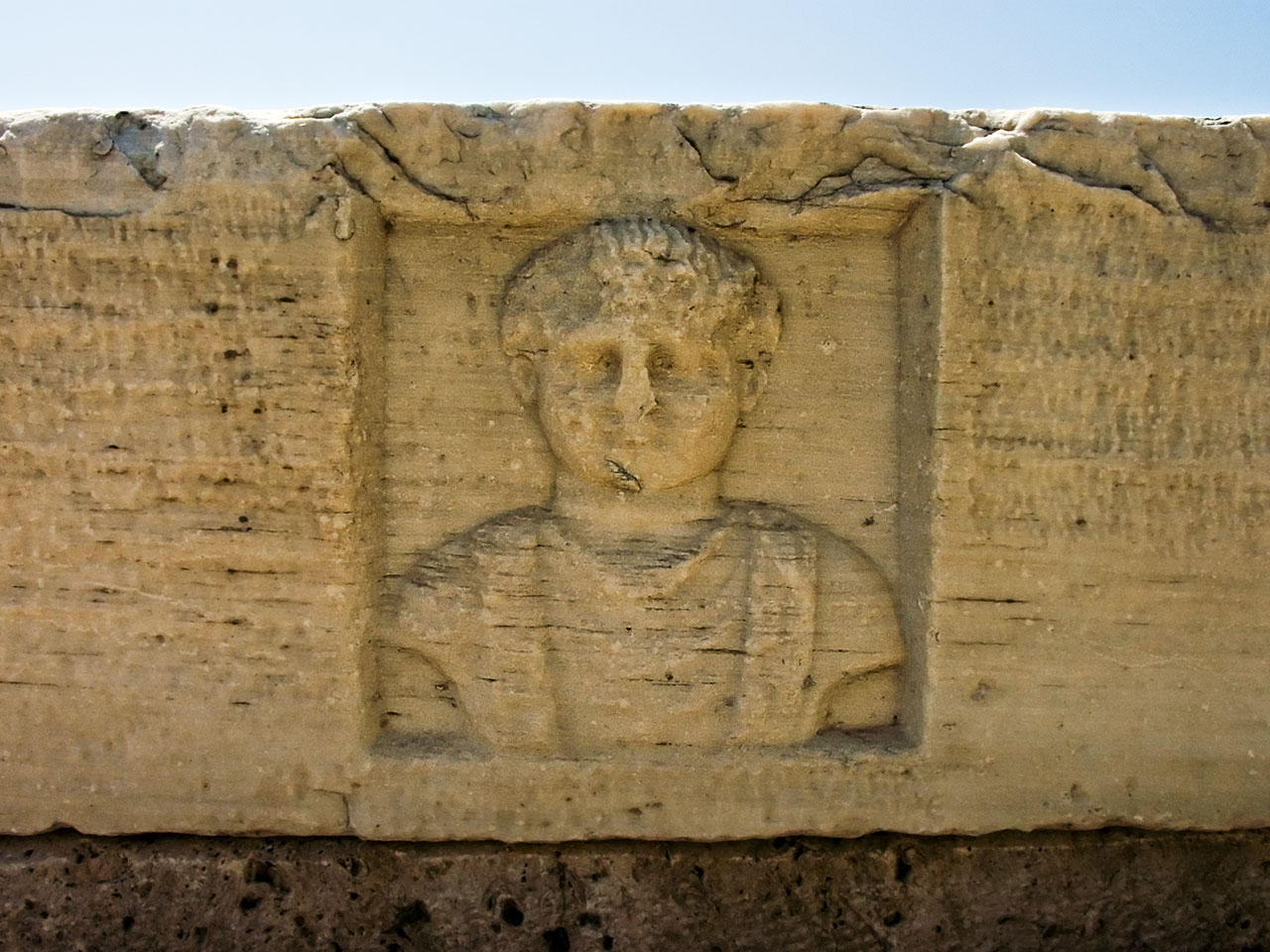 Antique Marble Relief of Pythagorion at the excavation site next to Pythagorion in Samos Island